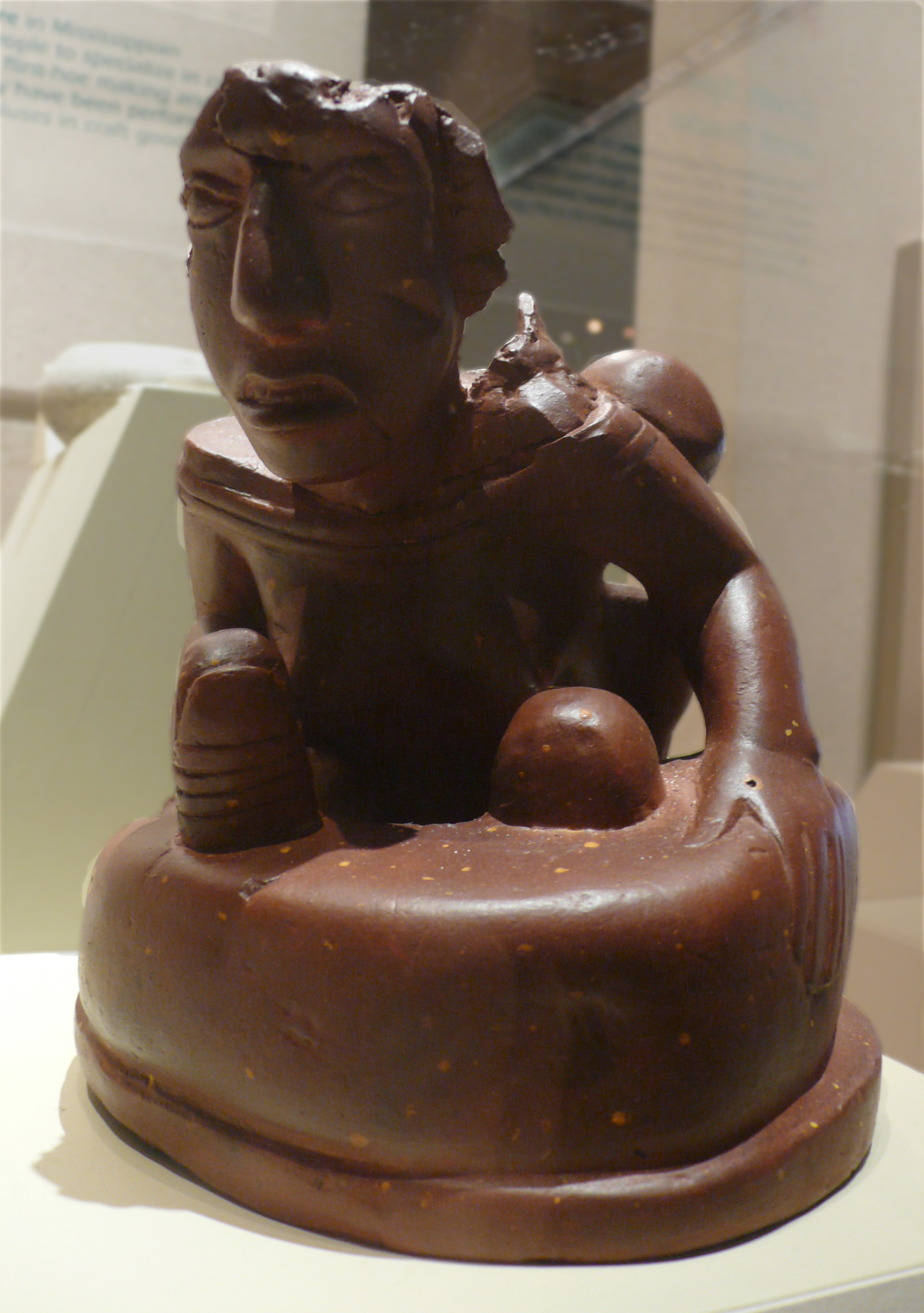 Pre-Colombian Mississippian culture Stone statue known as the "Birger figurine, discovered at the BBB Motor Site.